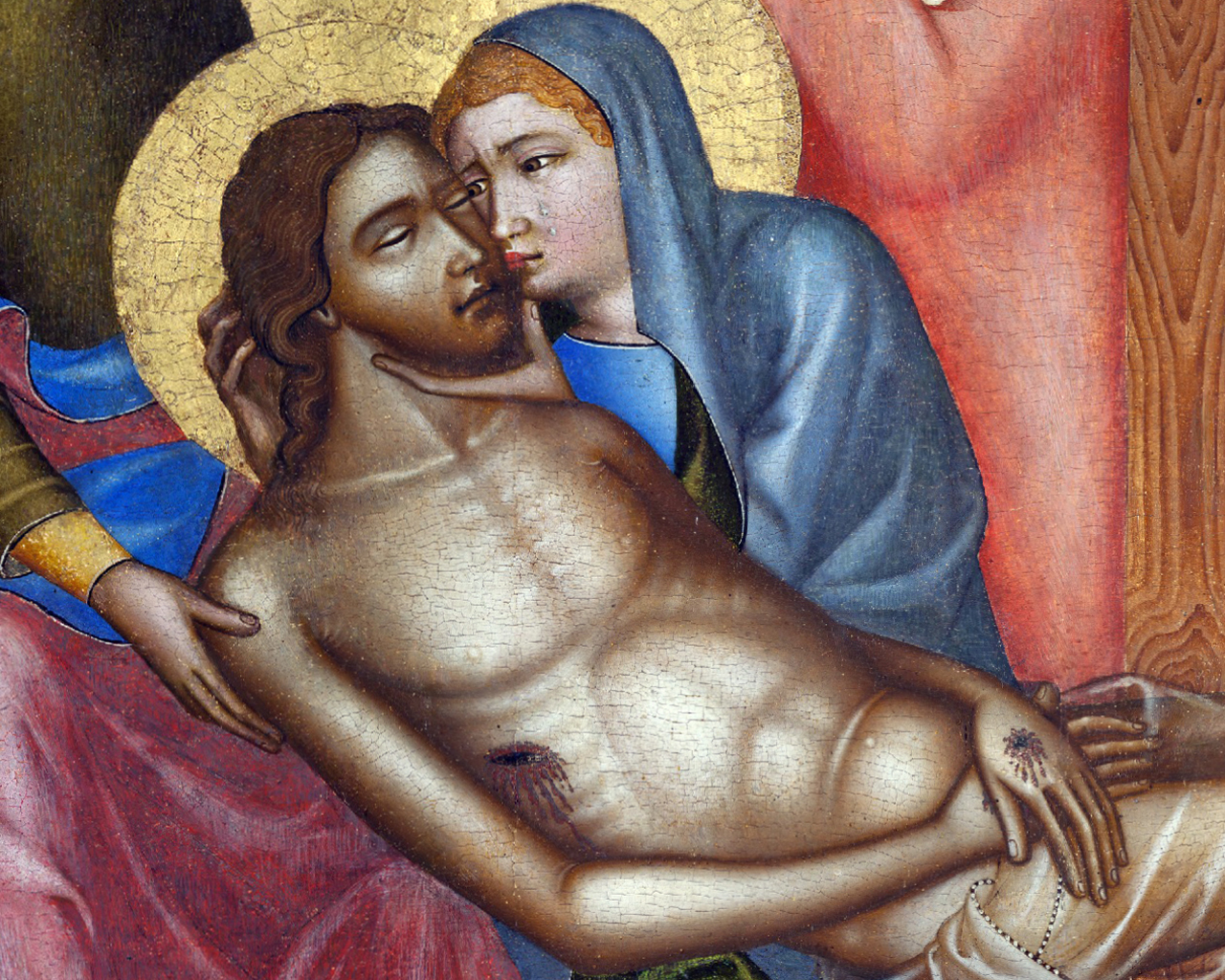 Hohenfurth Altarpiece - Lamentation (detail - Pietà), National Gallery in Prague